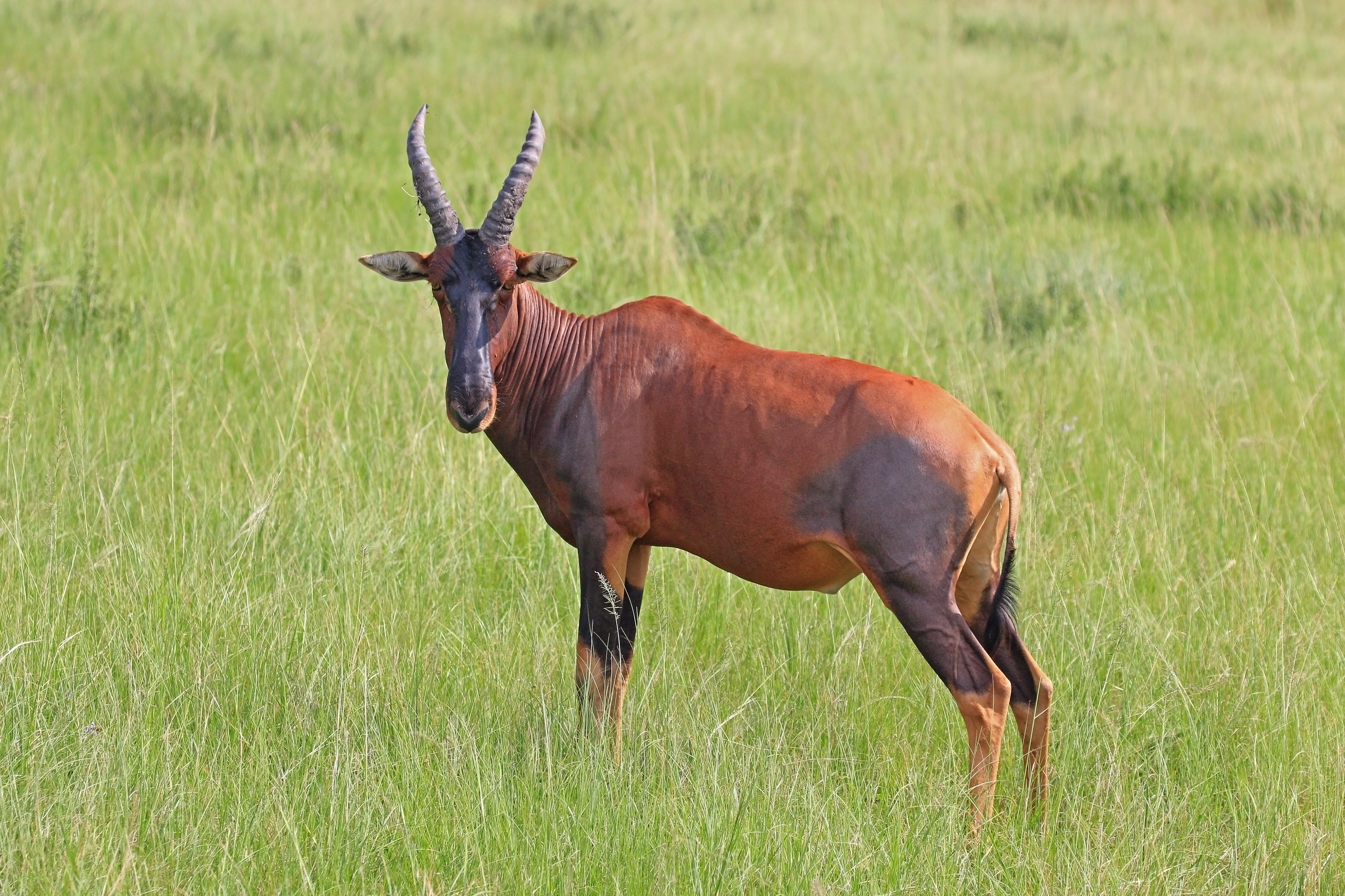 Topi (Damaliscus lunatus jimela), male, Queen Elizabeth National Park, Uganda